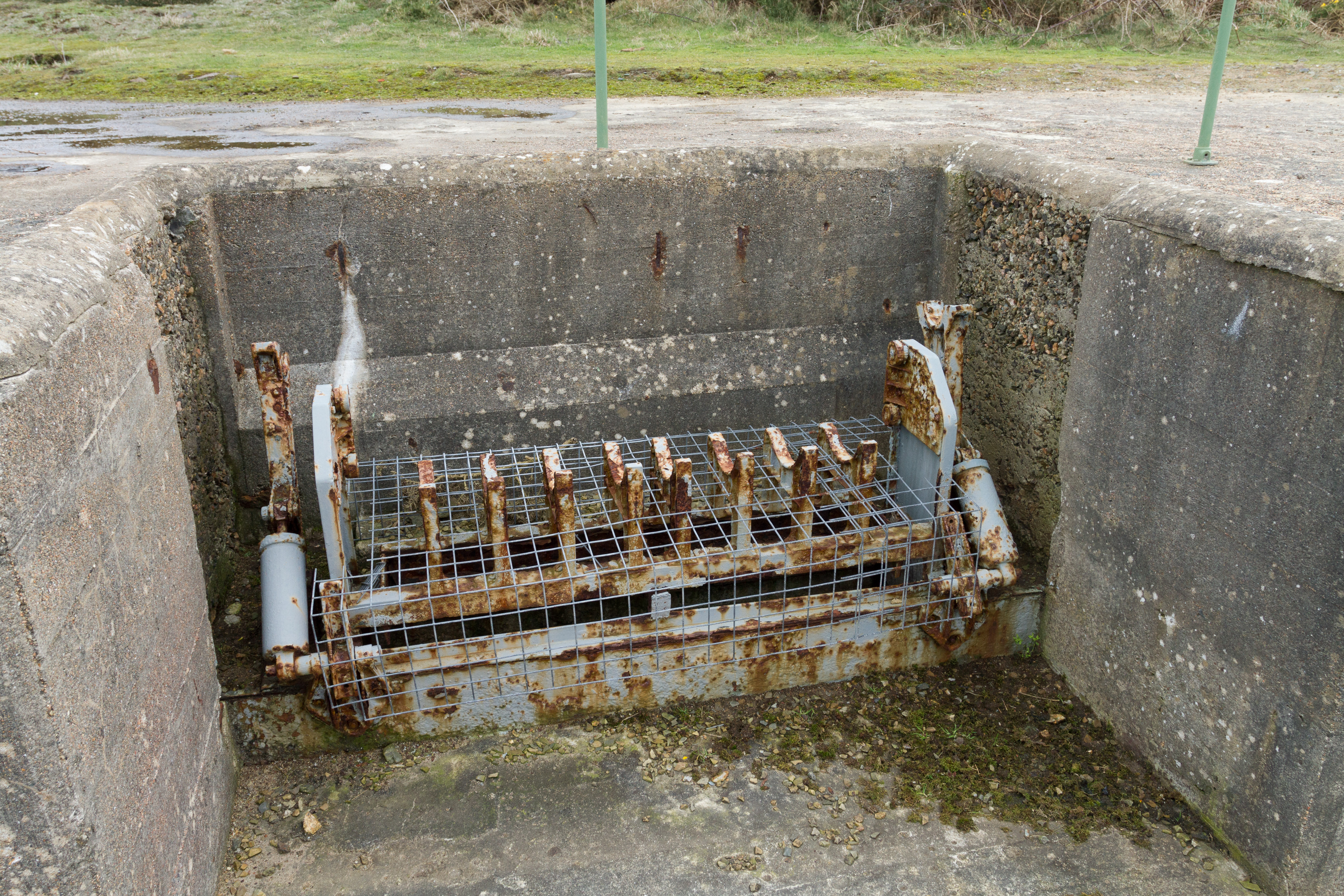 Mechanical lift within a gun emplacement which raised shells from an underground storage room (magazine) up to the gun.